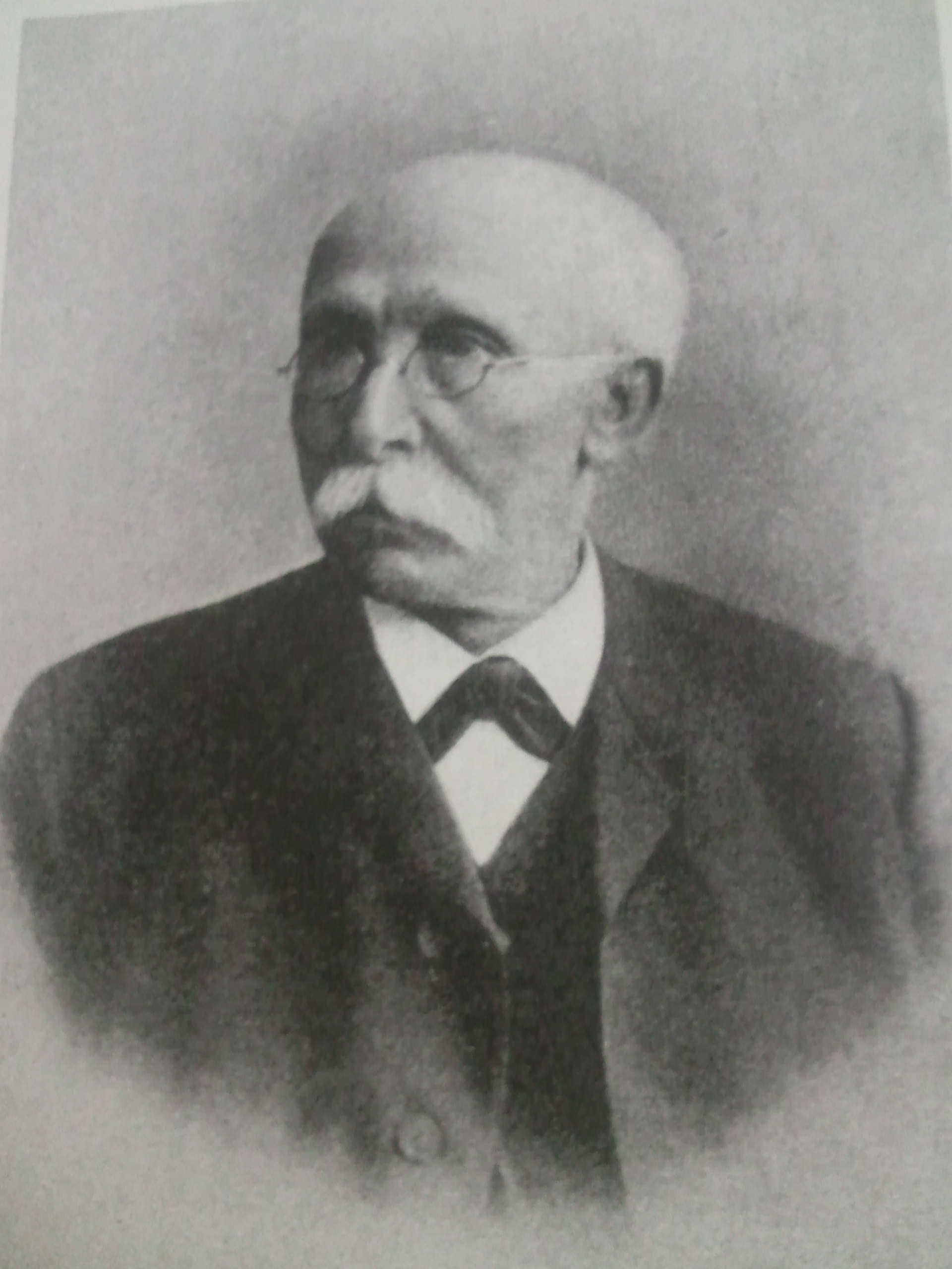 Franz Strauss Photography